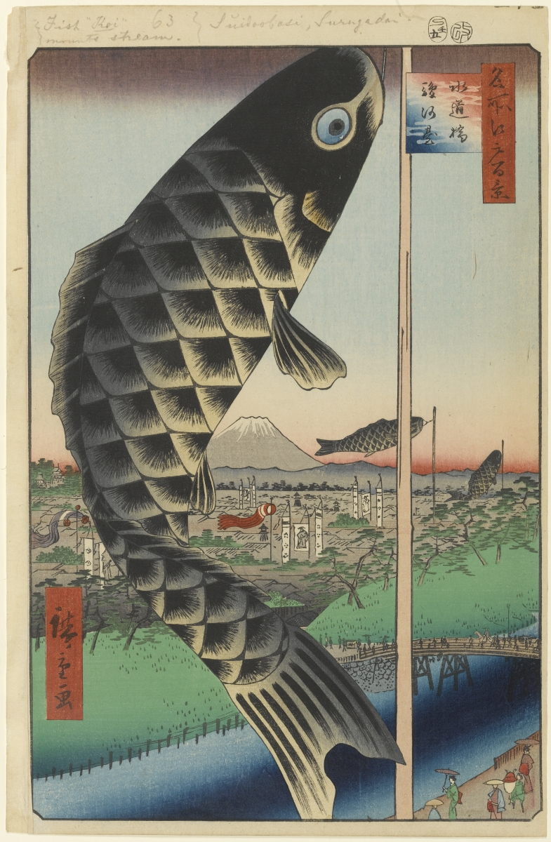 Part of the series One Hundred Famous Views of Edo, no. 048, part 2: Summer.